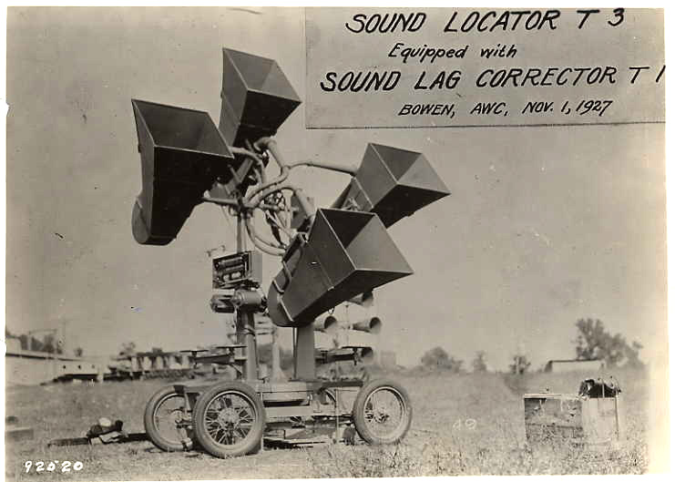 A T3 aircraft sound locator used for air defense by the U.S. Army Signal Corps. Before radar was invented in World War II, passive acoustic aircraft location devices were used by a number of nations to detect incoming enemy aircraft by listening for the sound of their engines. This example consists of two pairs of horn sound collectors on a steerable mount, attached to stethoscope-type earphones worn by observers. The horizontal (right–left) pair was used to determine the azimuth of the aircraft, and the vertical (top–bottom) pair was used to determine its elevation. "AWC" may indicate the photo was taken at the US Army War College, then at Fort McNair, Washington D.C. "BOWEN" might refer to Admiral Harold Gardiner Bowen (1883–1965) who at that time was directing air defense research at the Naval Research Laboratory and later had a role in developing radar.